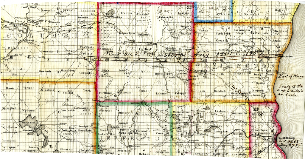 This map shows the path of a tornado across Wisconsin on August 21, 1857